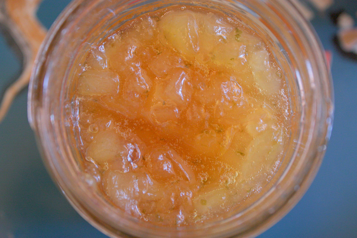 Finito! If you are new to canning and in Seattle-area, you can find canning and general food preservation classes on the Fresh-Picked canning calendar. Updated all the time!